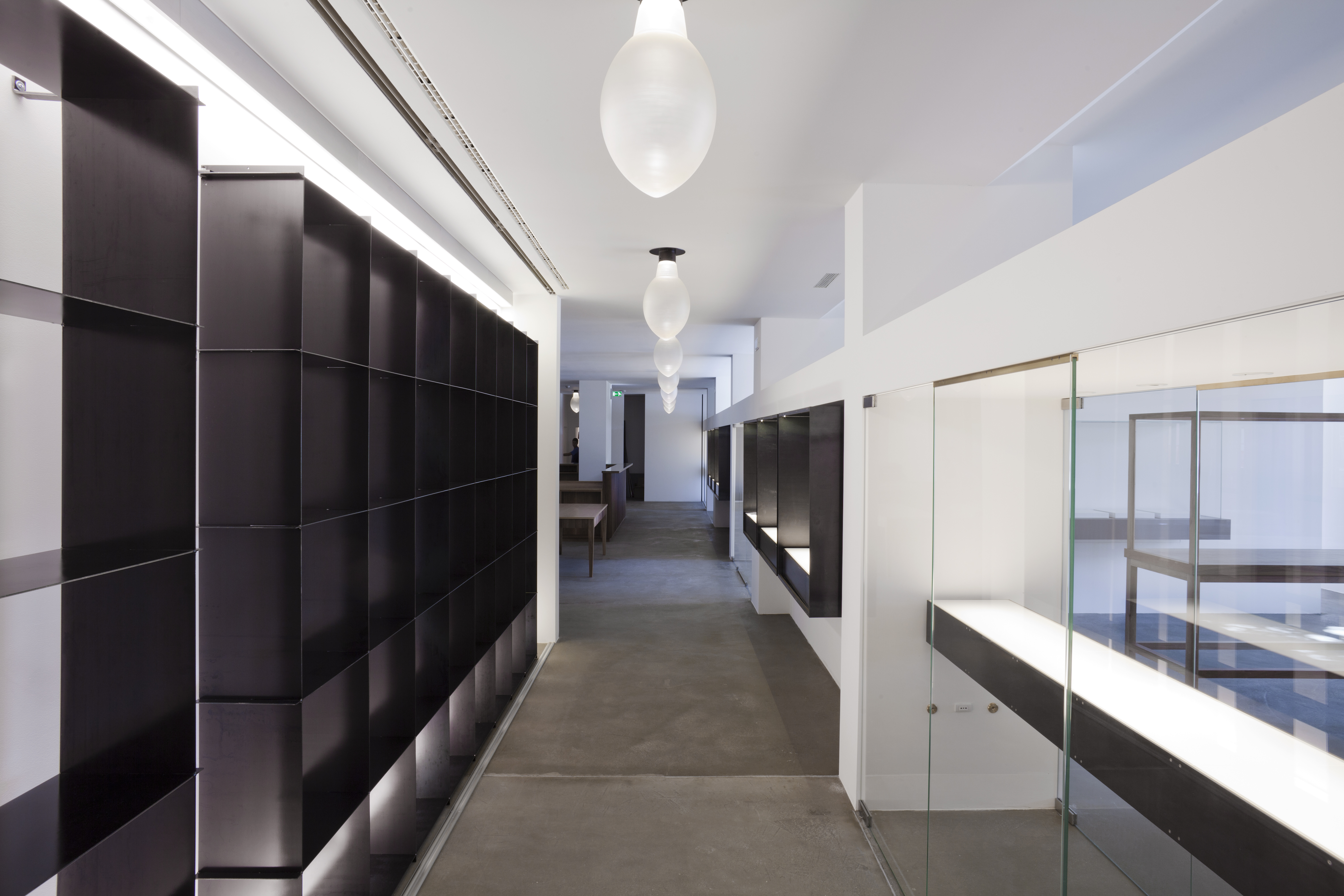 Le Stanze del Vetro, Island of San Giorgio, Venice, Italy